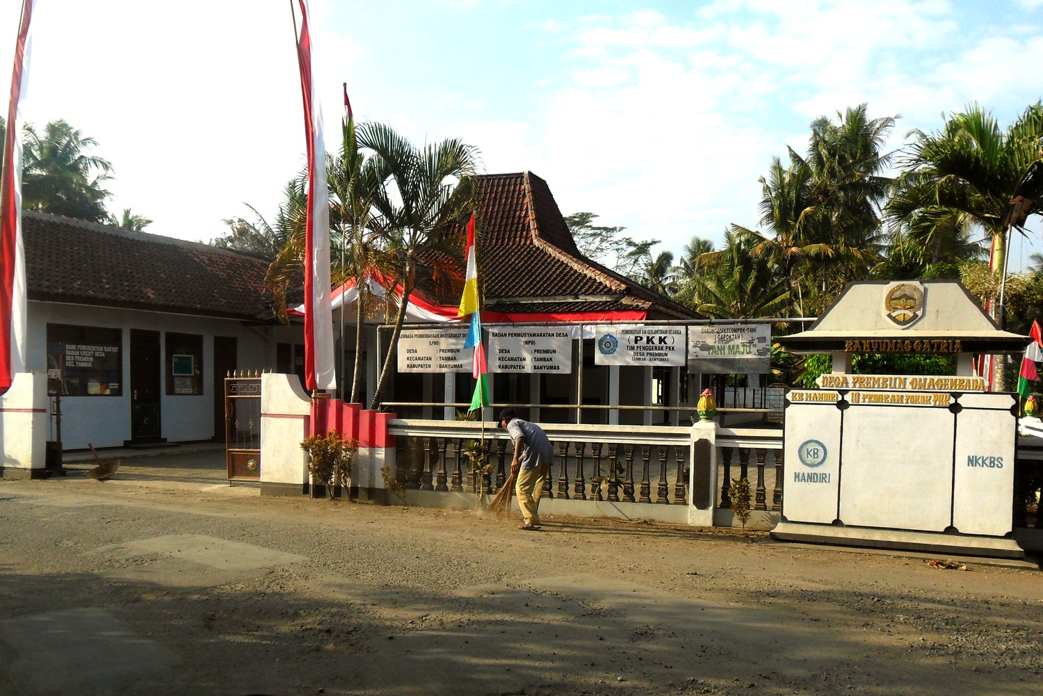 Prembun Village office, Banyumas, Central Java.